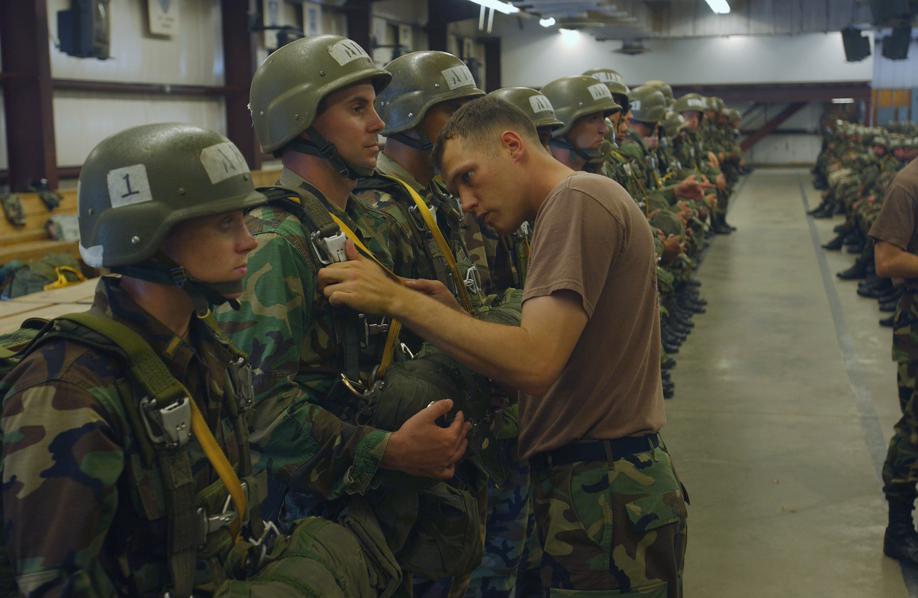 US Army students from the Airborne School at Fort Benning, Georgia (GA), are inspected by their jump masters prior to their first airdrop mission.